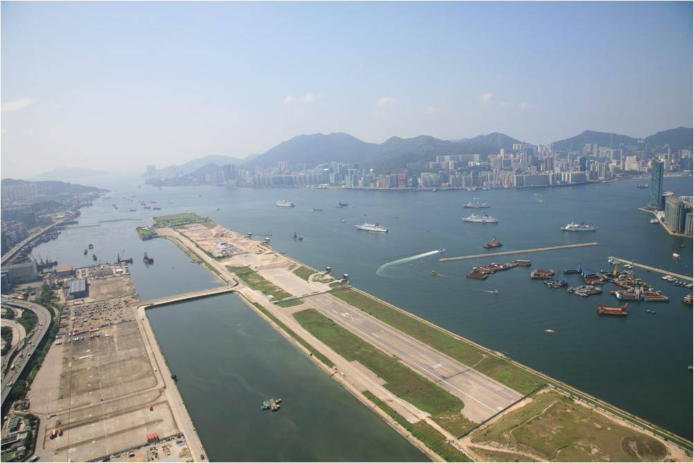 HK Kai Tak